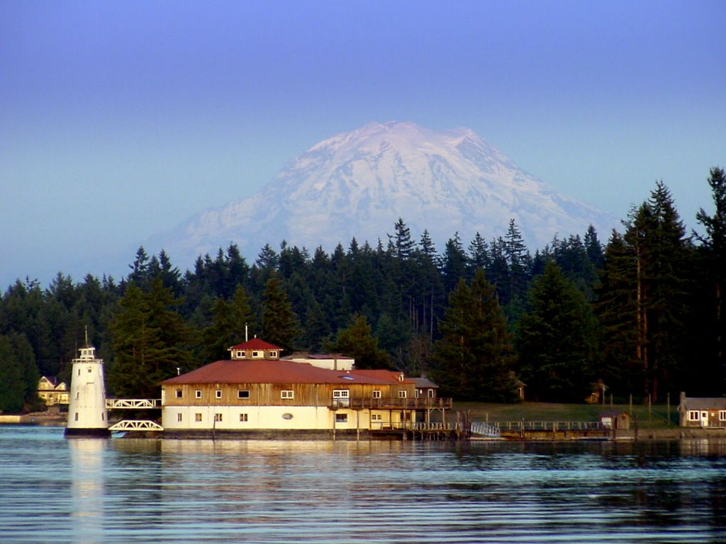 Fox Island Lighthouse viewed from Fox Island bridge. (It looks like, technically, the building is on Tanglewood Island, just off Fox Island.)